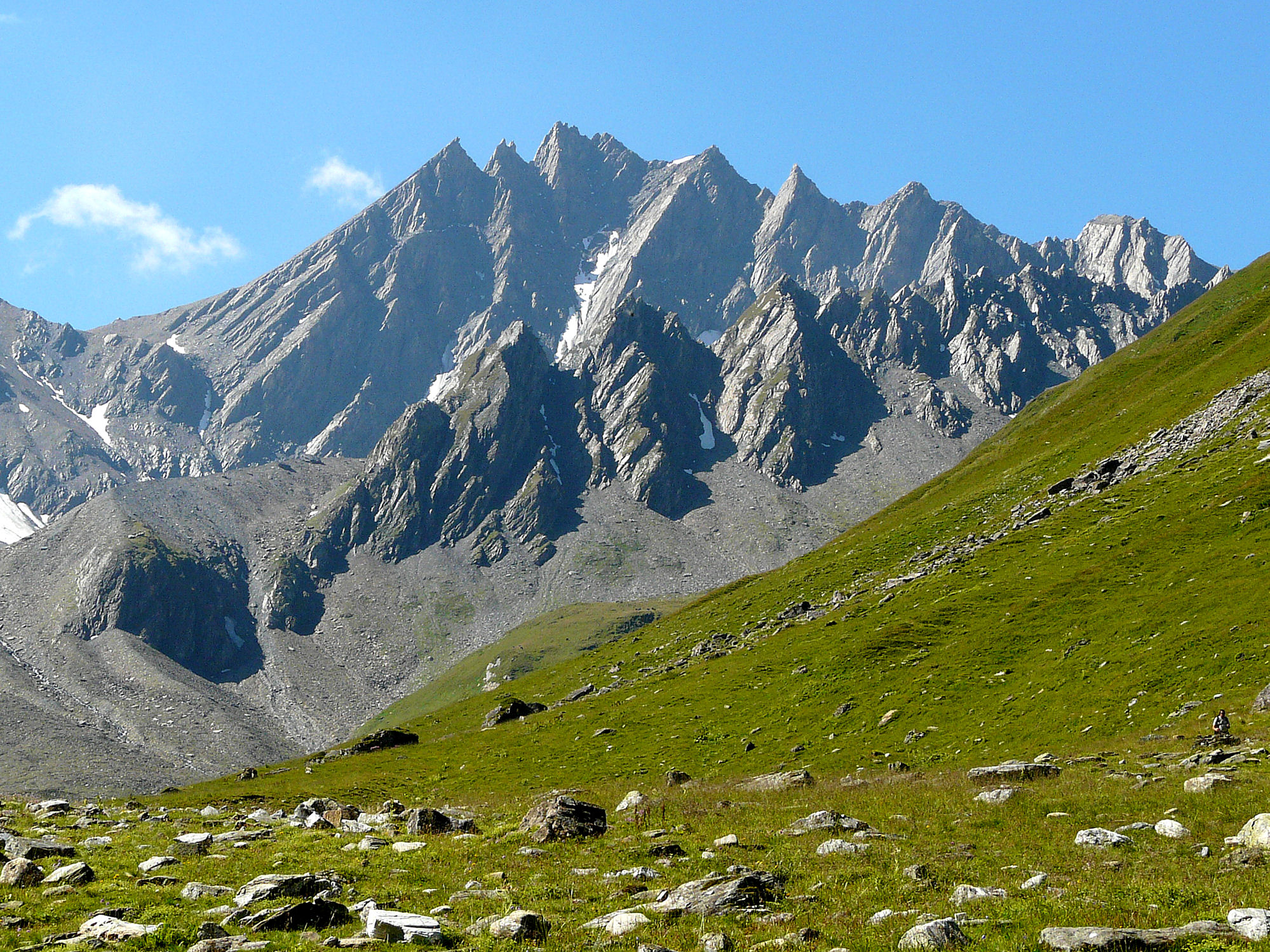 The north side of the Grand Golliat seen from the Val Ferret (Valais).